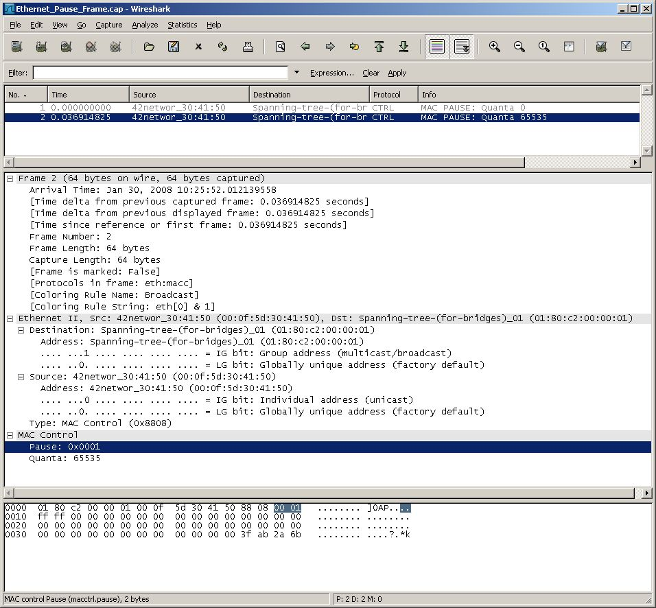 Ethenet pause Frame Screen Shot